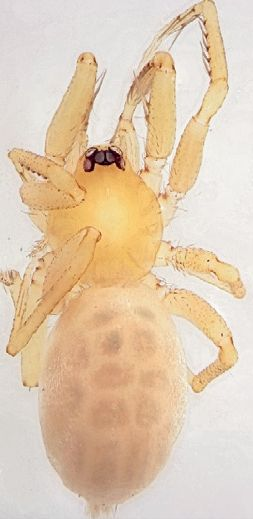 Spinestis nikita, dorsal view of female.